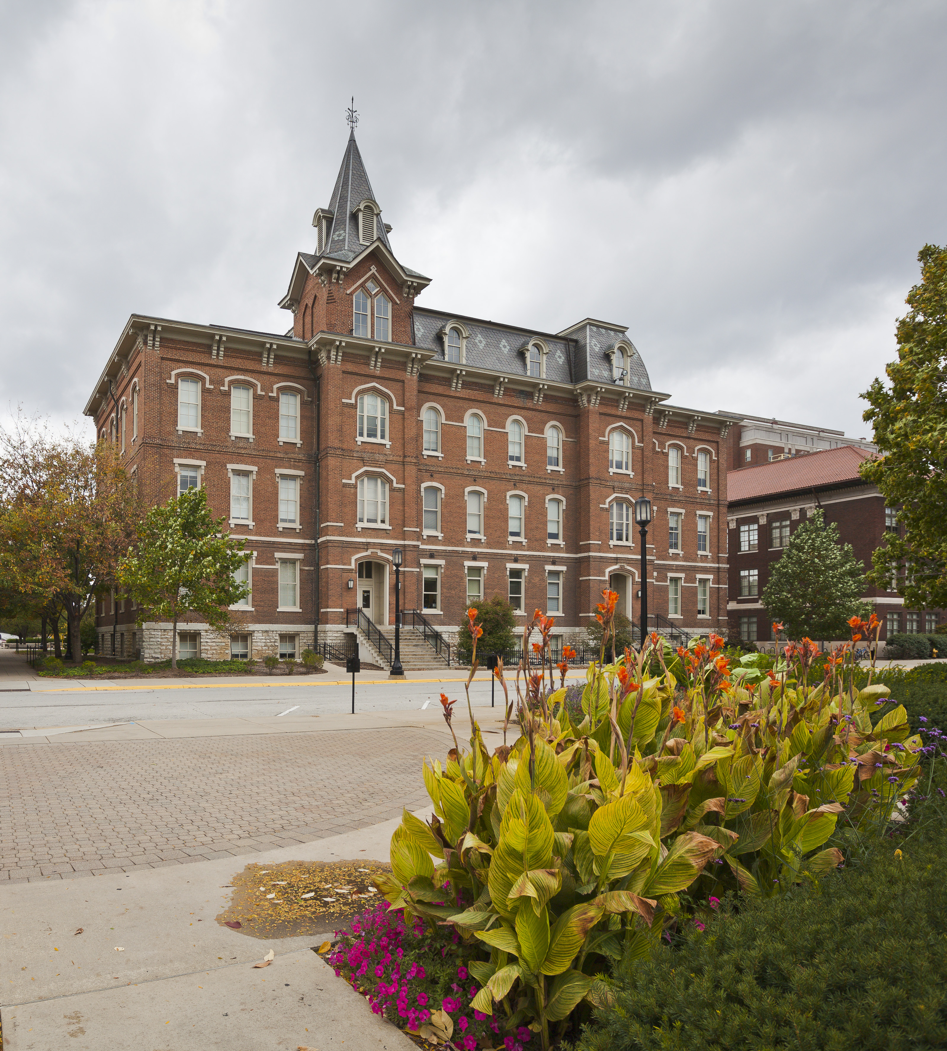 University Hall,Purdue University, West Lafayette, Indiana, USA